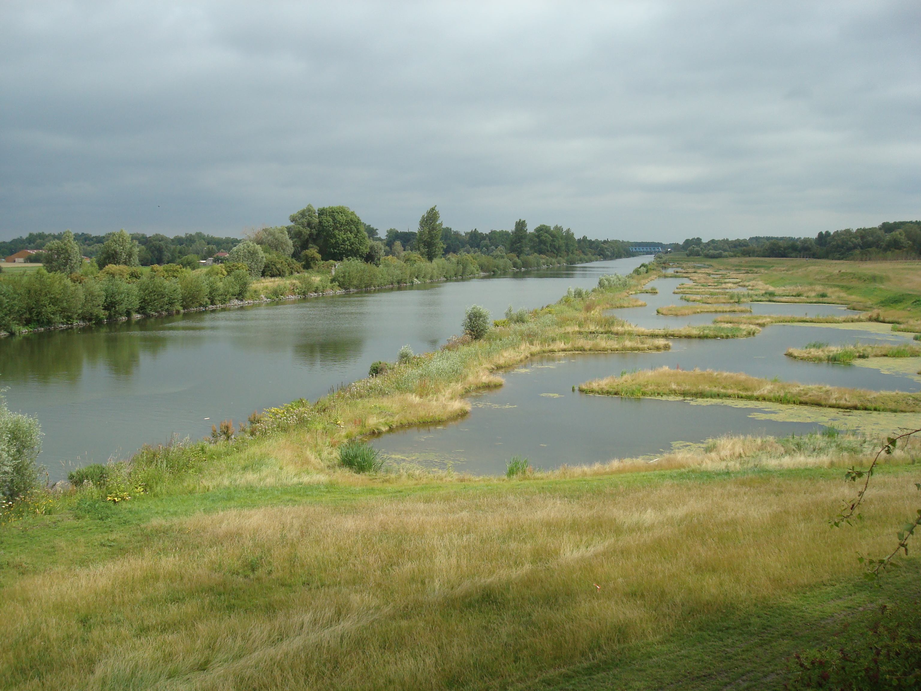 Banks with subnatural lagoons (Constructed wetland) were created (2010) by VNF (Waterways of France), as a countervailable to set wide gauge of the Scheldt in the north of France, on the edge of the river. The lagoon is divided into meanders in order to extend the ecotone soil-water and purifying water of the Scheldt. It is powered by the Scheldt itself passively or more "active" during the passage of boats (which produces a wave with pressure and depression).